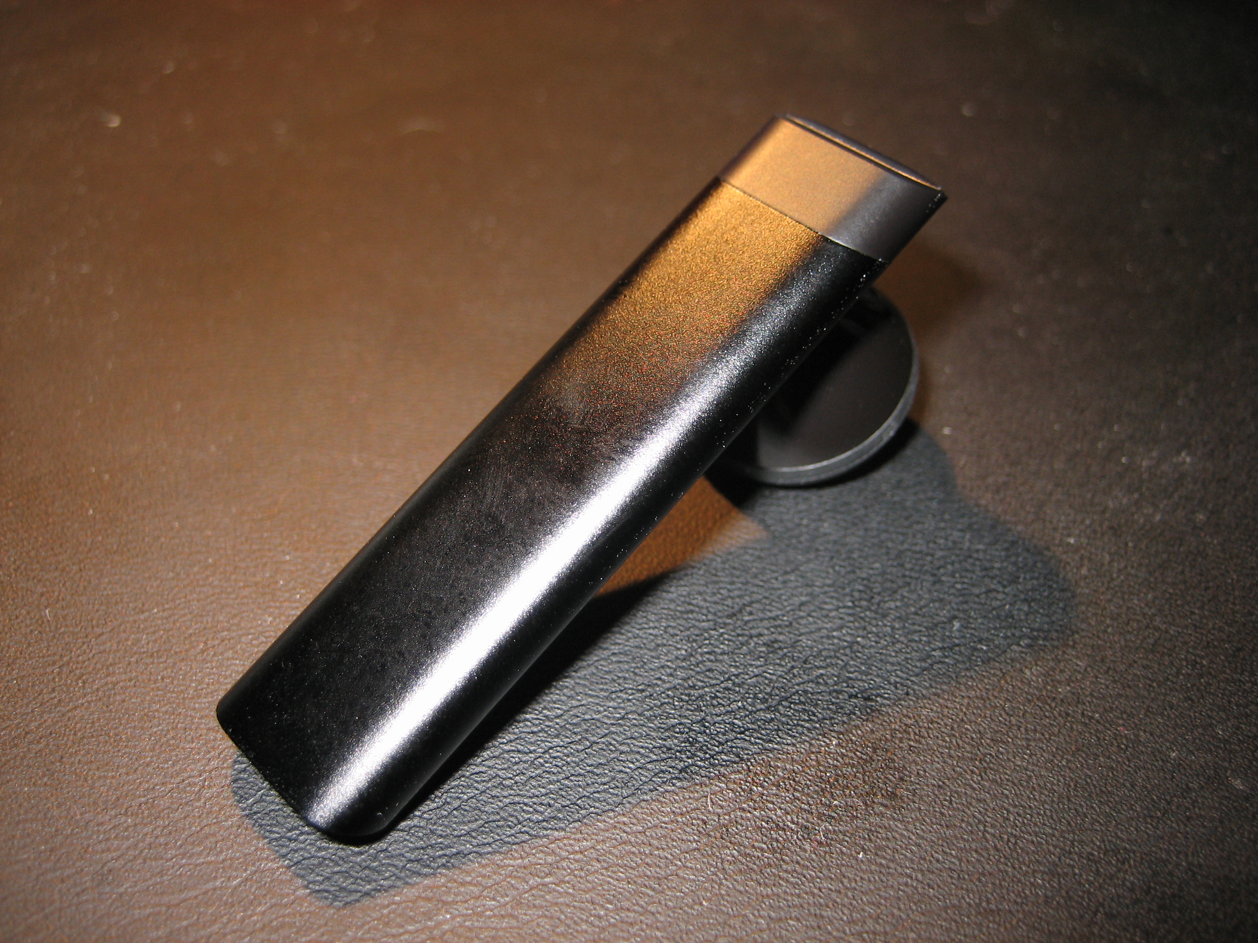 Apple's iPhone Bluetooth Headset